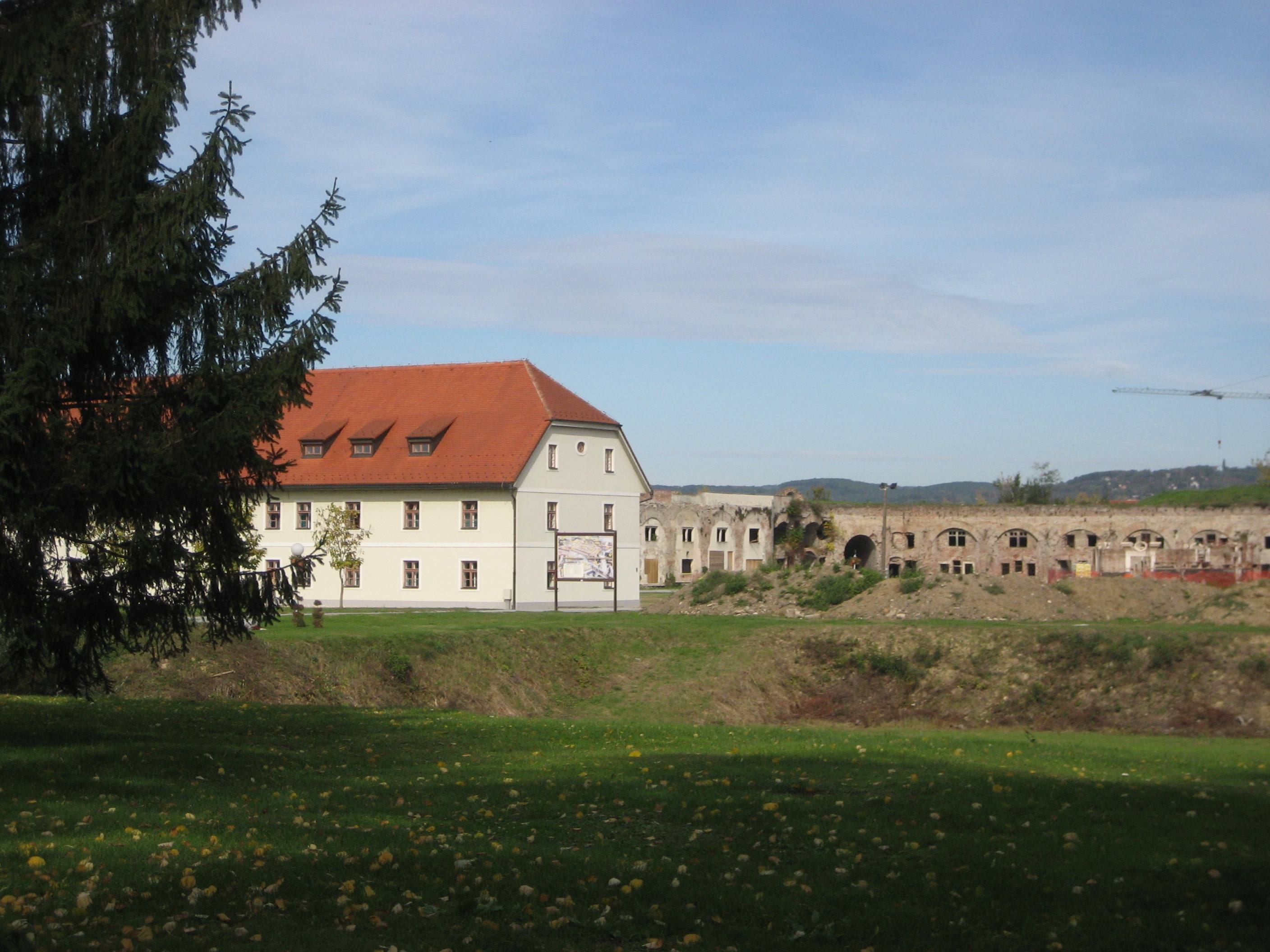 Old Fortress in Slavonski Brod